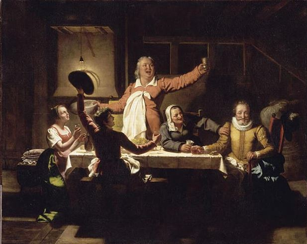 Henry IV Having Dinner with the Miller, Michaud